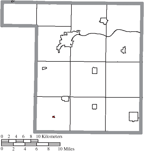 Map of the municipal and township boundaries of Henry County, Ohio, United States, as of the 2000 census, with the location of the village of New Bavaria highlighted. Township borders are shown only in unincorporated areas in order to differentiate incorporated and unincorporated areas more clearly.